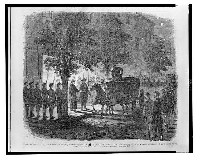 Arrest of Marshal Kane, at his house in Baltimore, at three o'clock A.M. on Thursday, June 27, by order of Major-General Banks on a charge of treason / from a sketch by our special artist accompanying General Banks' command.